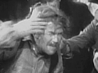 Edgar Dearing in the public domain movie Abraham Lincoln (1930).